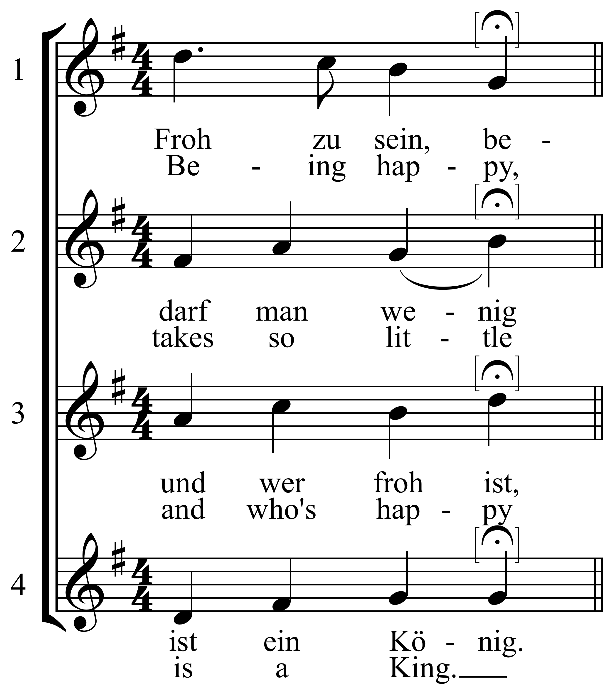 "Who Is Happy Is a King German" four voice round. The German lyrics are traditional, while the English translation in the image is by the uploader. German lyrics: Froh zu sein bedarf es wenig, und wer froh ist, ist ein König. Translation ([1]): Only a few people achieve true happiness, and those who do are happy as kings. Translation [2]: Being glad, a simple thing, Who is happy is a king.